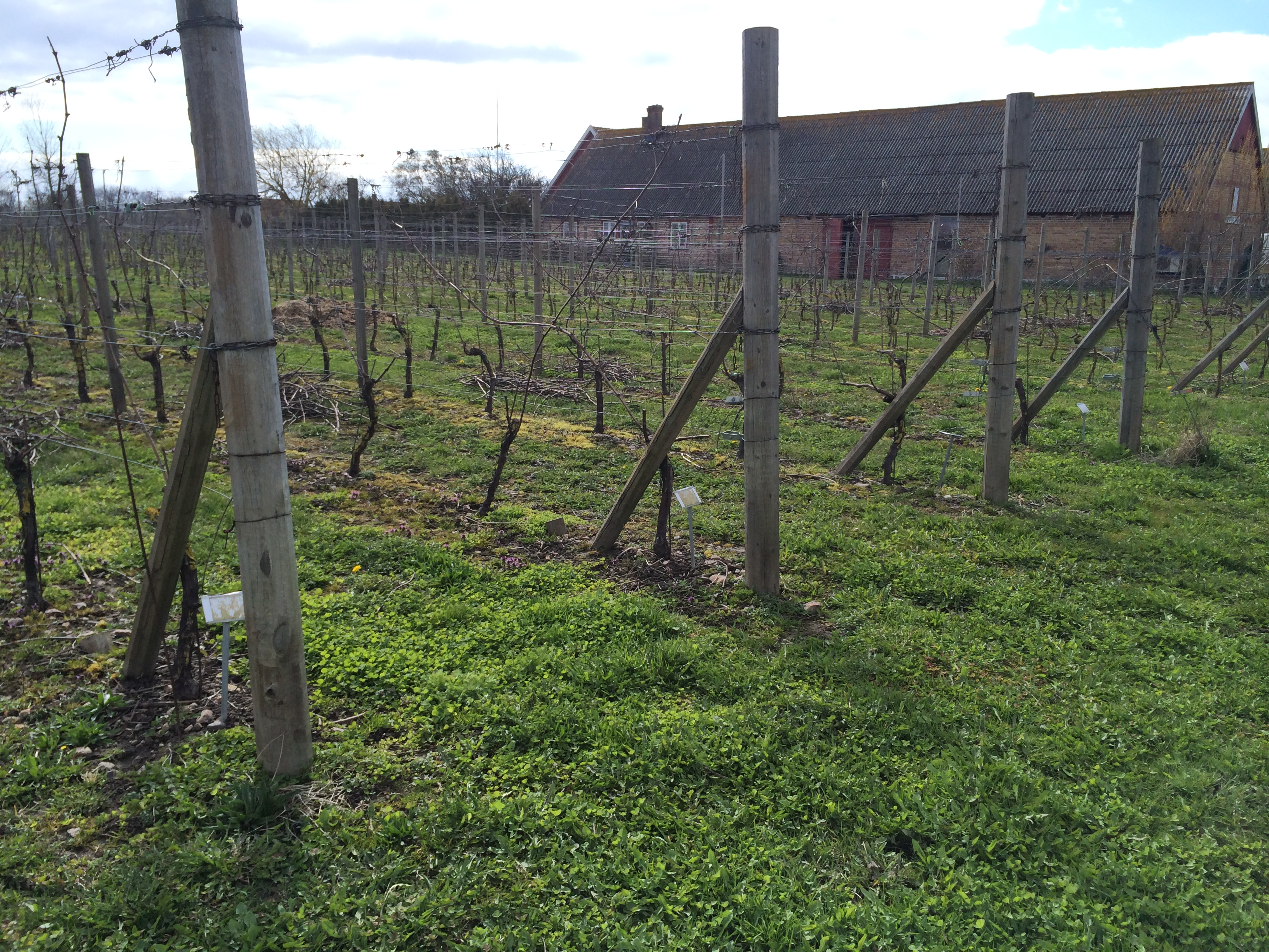 Winterpruned vines on Kullaberg peninsula in Skåne county, Sweden